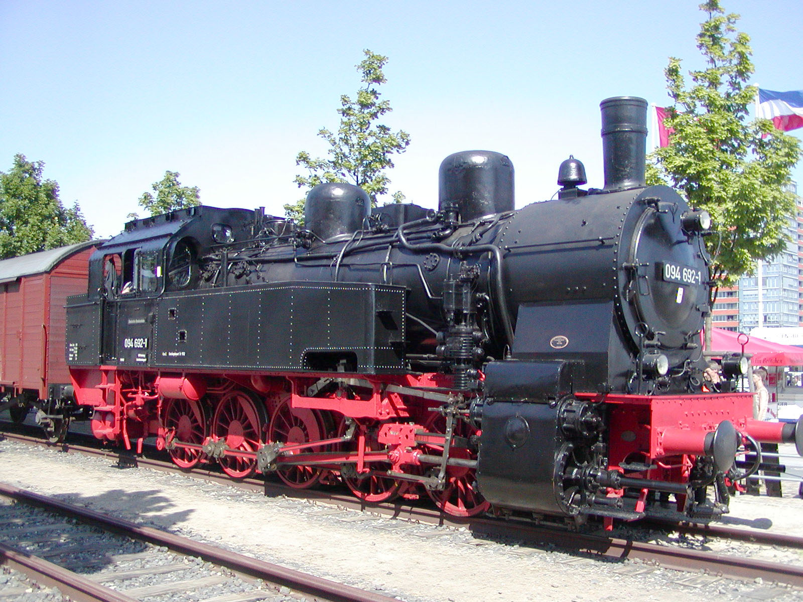 Tank Locomotive DRG094